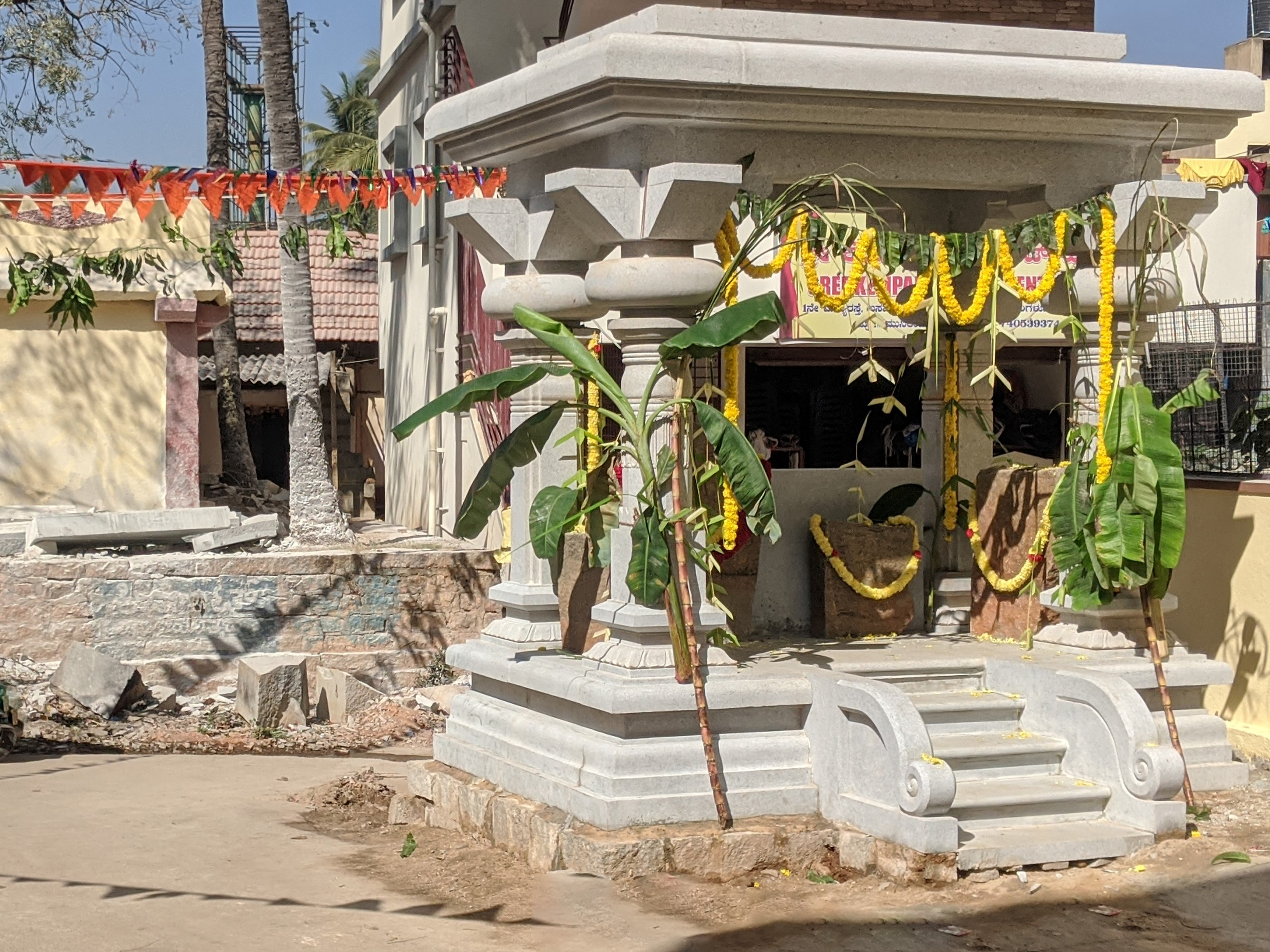 This crowd-funded Ganga style mantapa houses Bangalore's oldest inscription stone from 750CE , the Hebbal-Kittayya veeragalu. This photo is from 15Jan2020, the day of the when the mantapa was decorated by Hebbal residents on the occasion of Ugadi (the new year in Karnataka)